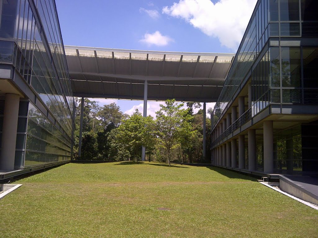 Universiti Teknologi Petronas